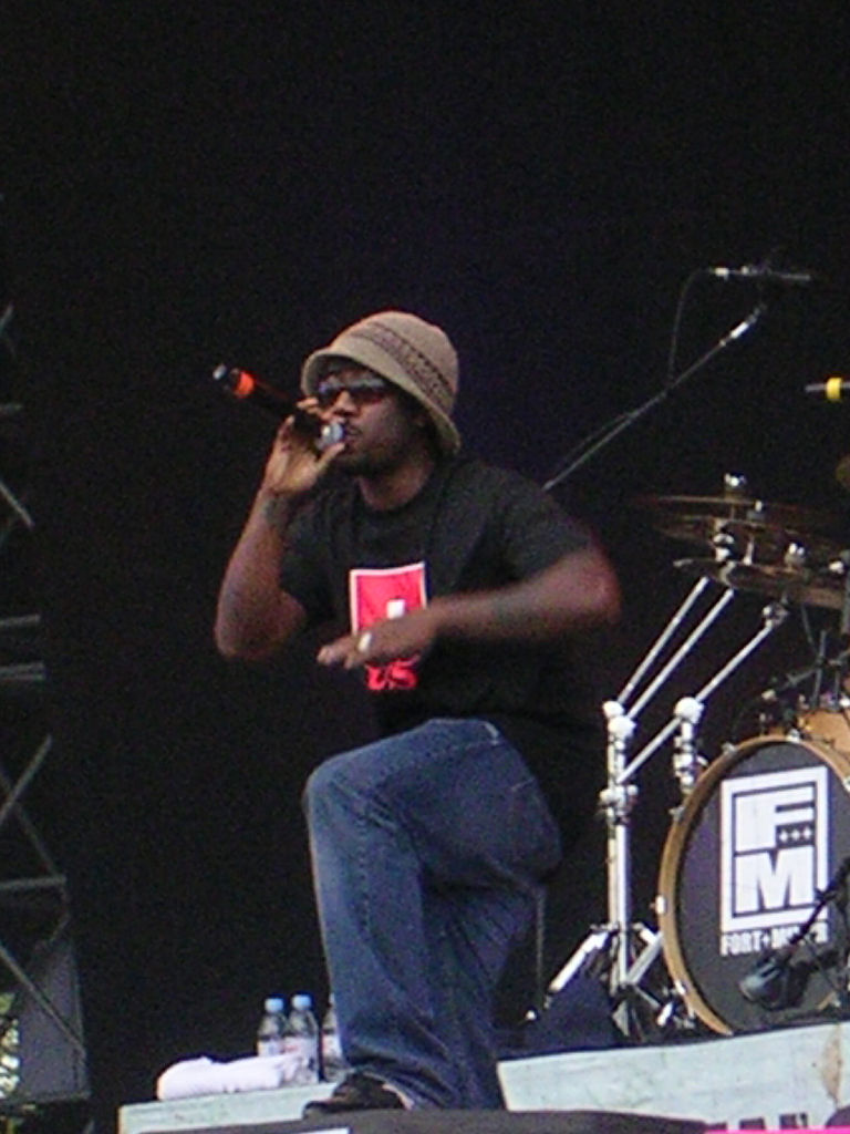 Tak (Fort Minor) performing live [highfield festival august 05]